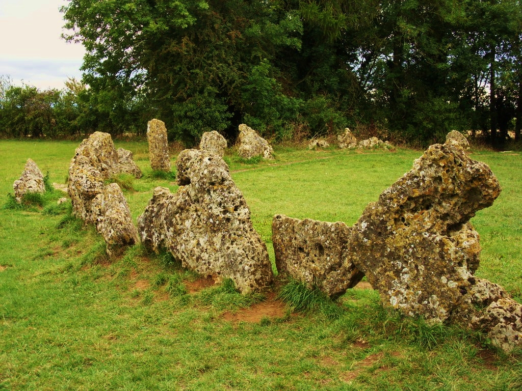 King's Men at the Rollright Stones, England, 2011.